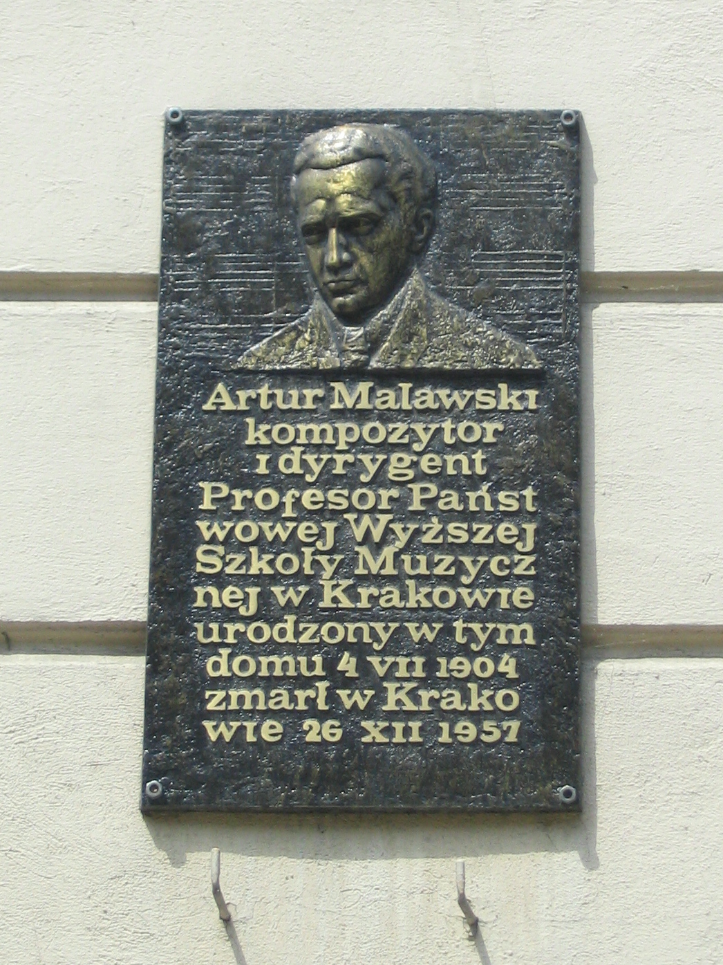 Memorial board on the house, where Artur Malawski was born.